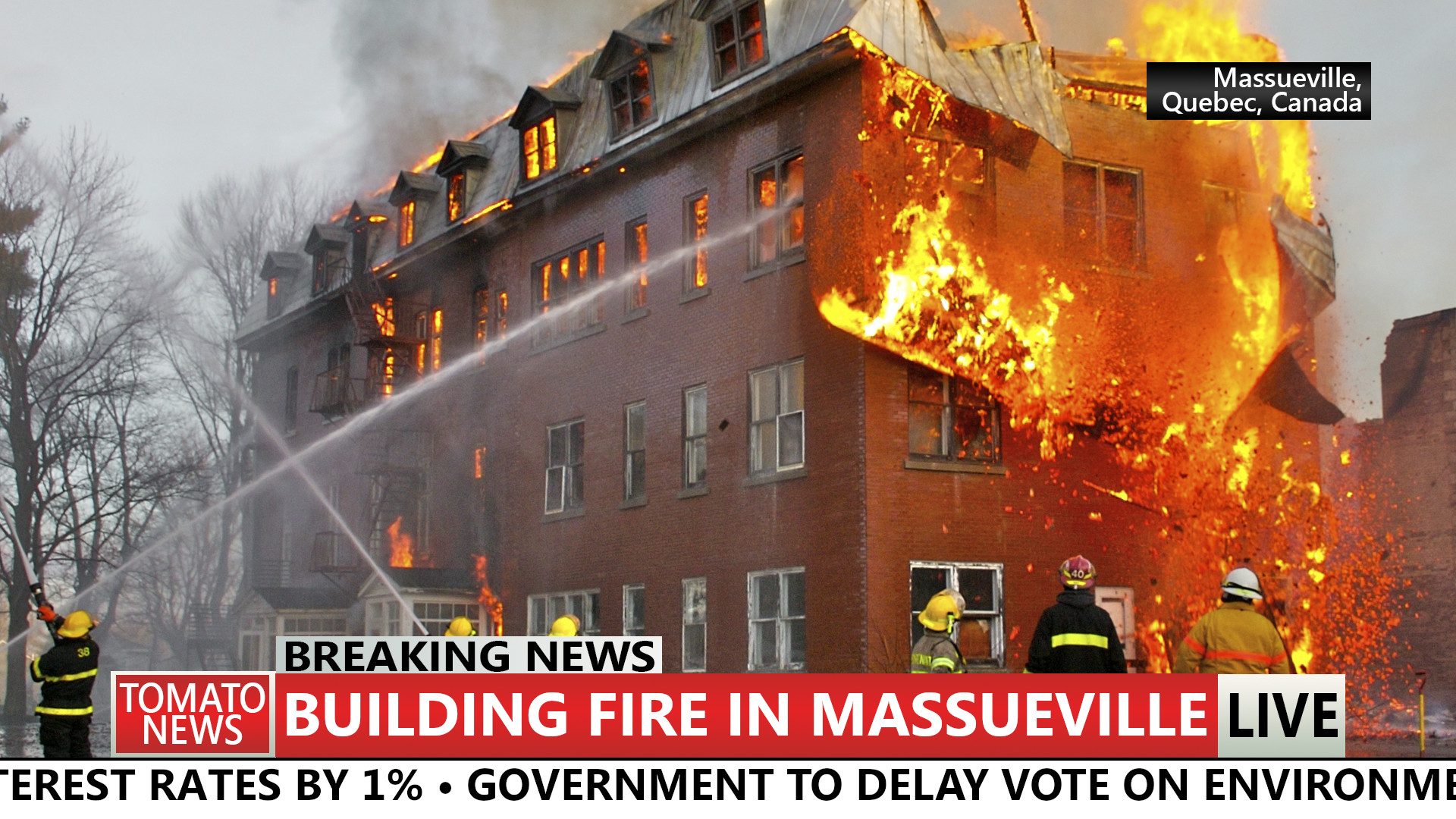 A television news program simulation image.